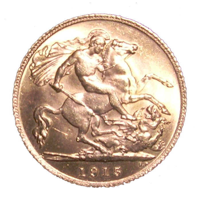 Reverse of a 1915 (George V) half-sovereign, owned by my grandfather and going to my grandson. I took a photo of the obverse but it's blurred.